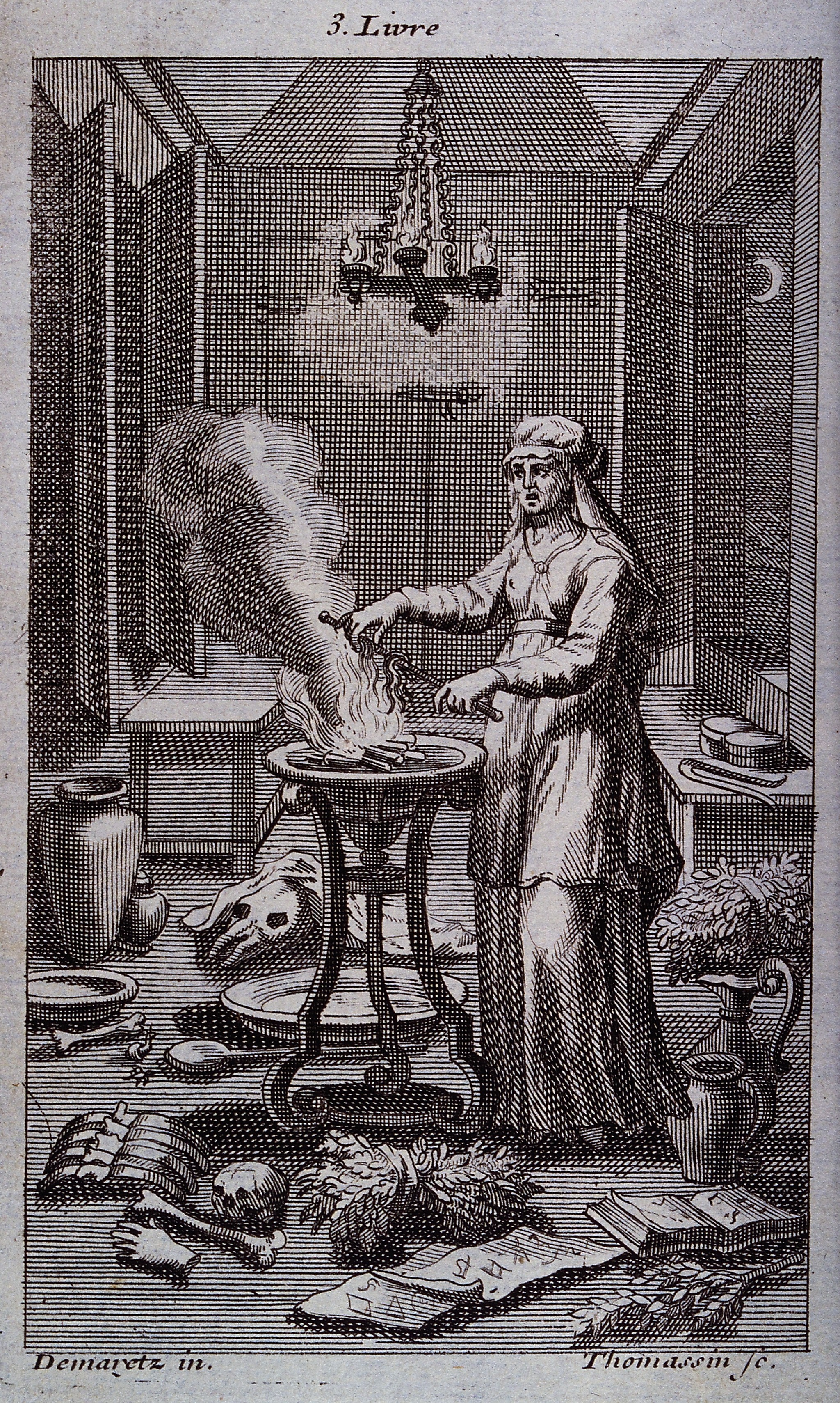 A witch casting spells over a steaming cauldron. Engraving by H.S. Thomassin after Demaretz. Iconographic Collections Keywords: Henri Simon Thomassin; Magic; Witchcraft; demaretz; WITCH; thomassin; Demaretz; spells